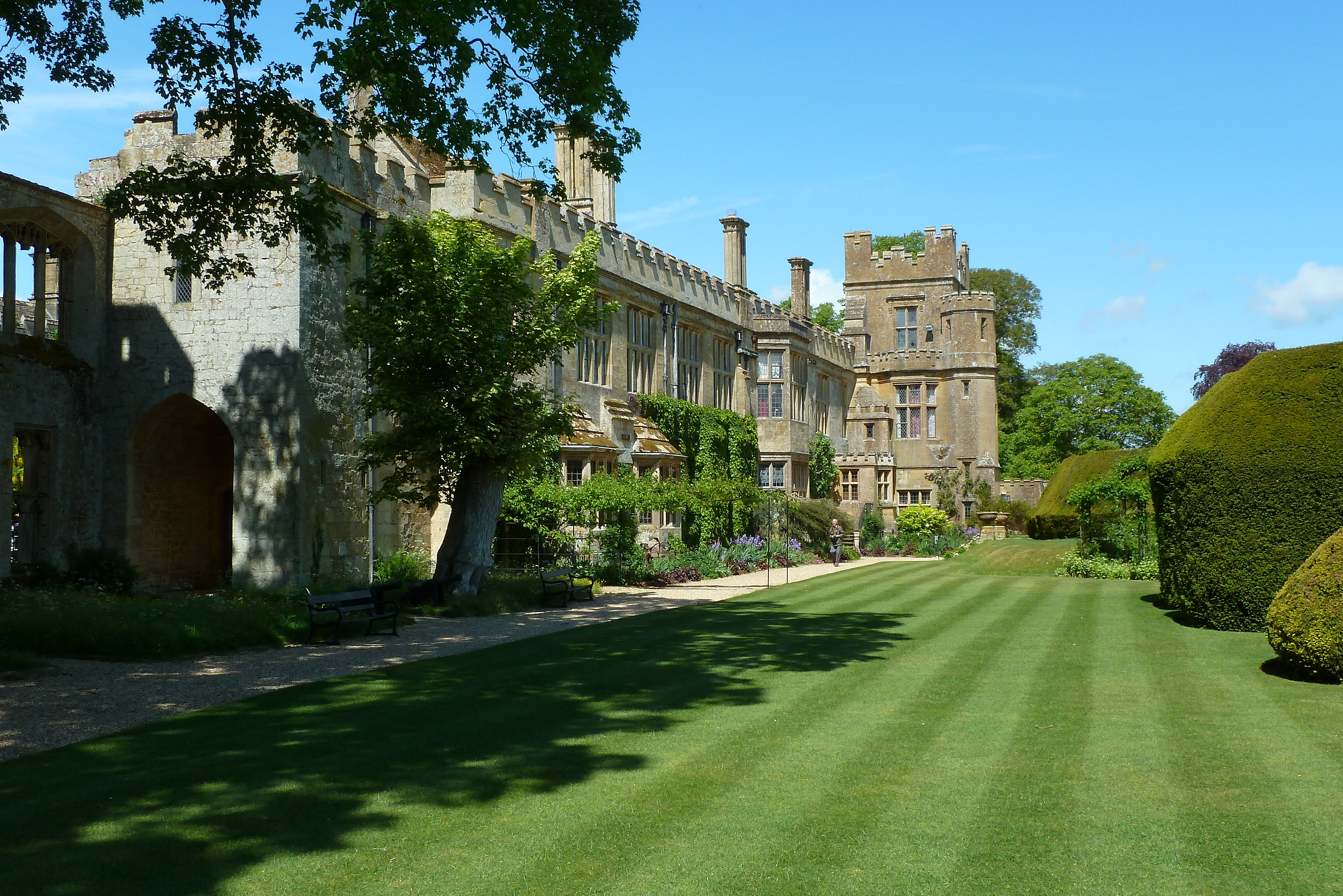 Sudeley Castle